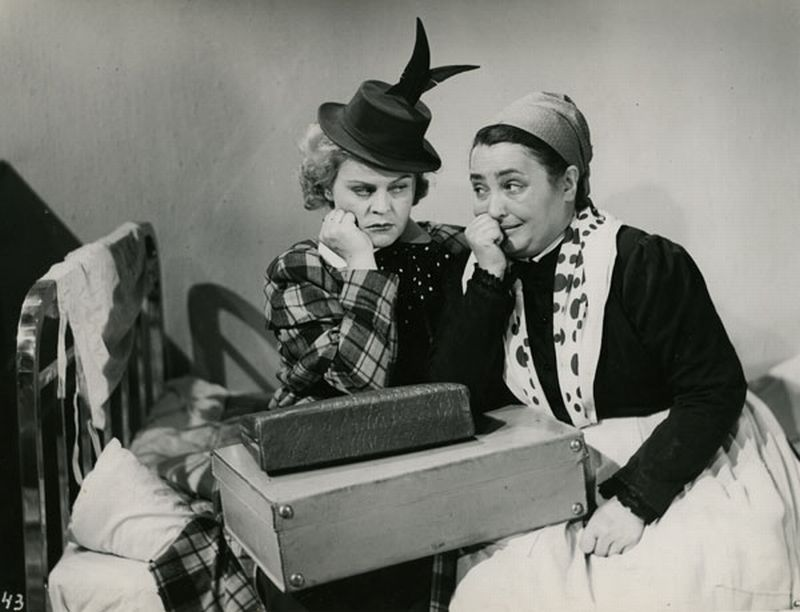 Scene from the Hungarian movie titled Vadrózsa (released in 1939)